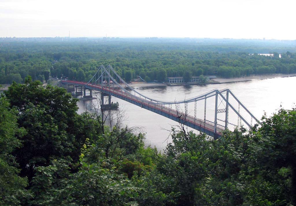 Parkovyy Pedestrian Bridge in Kiev.